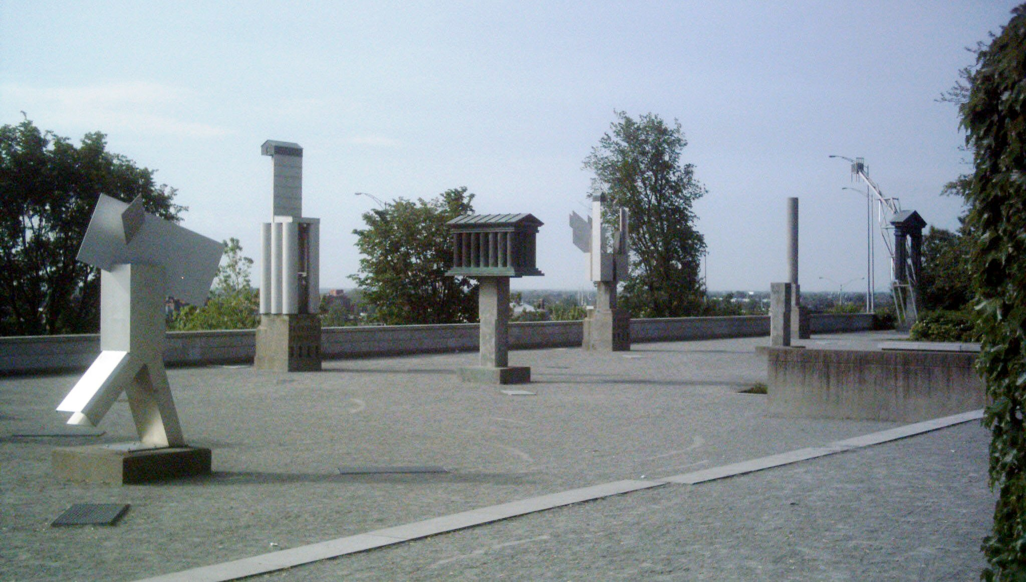 Melvin Charney's Sculptures Garden, in front of the Canadian Center for Architecture, Montreal